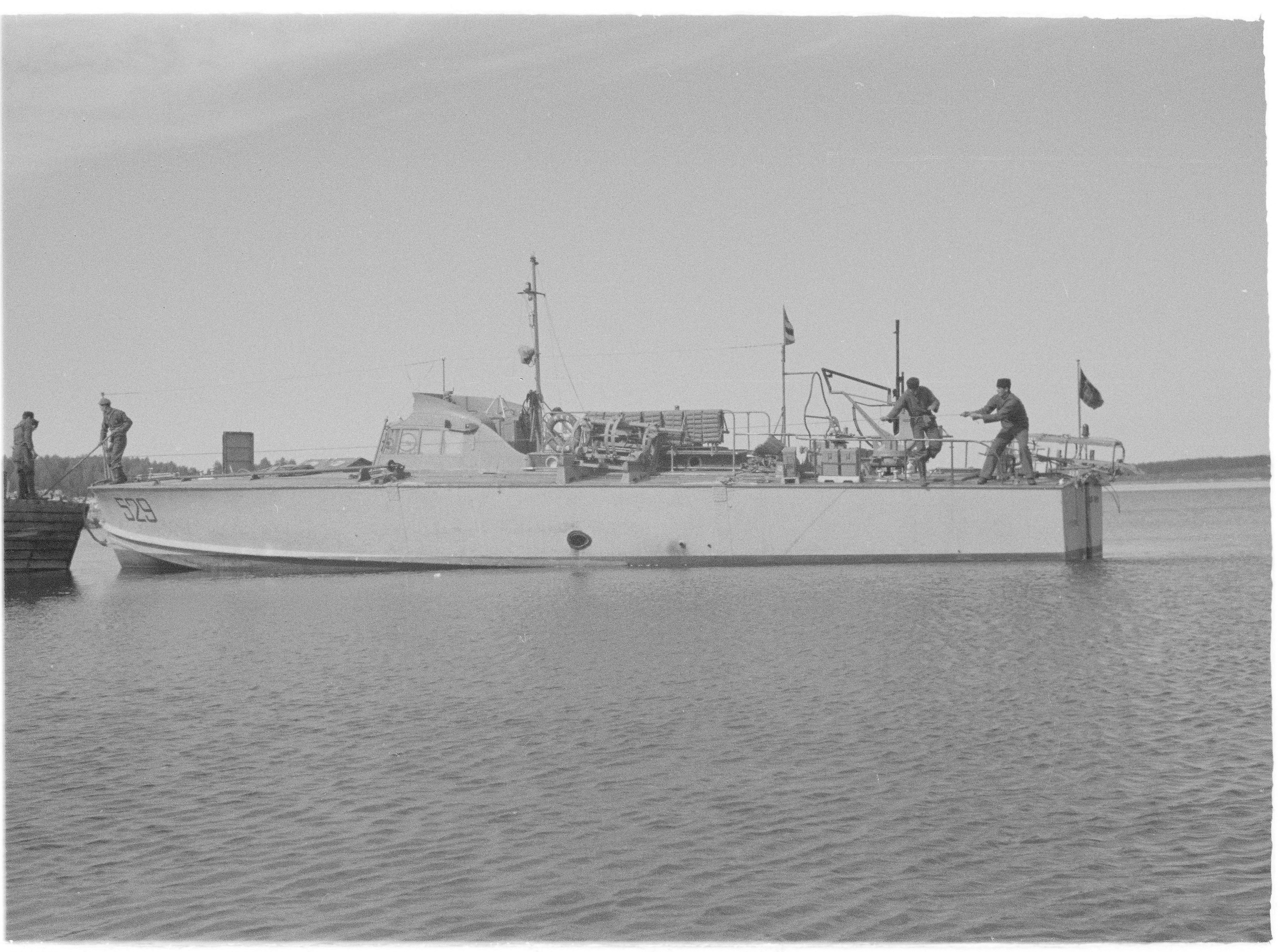 MAS 529 and MAS 526 at Punkasalmi. Punkasalmi 1942.06.15